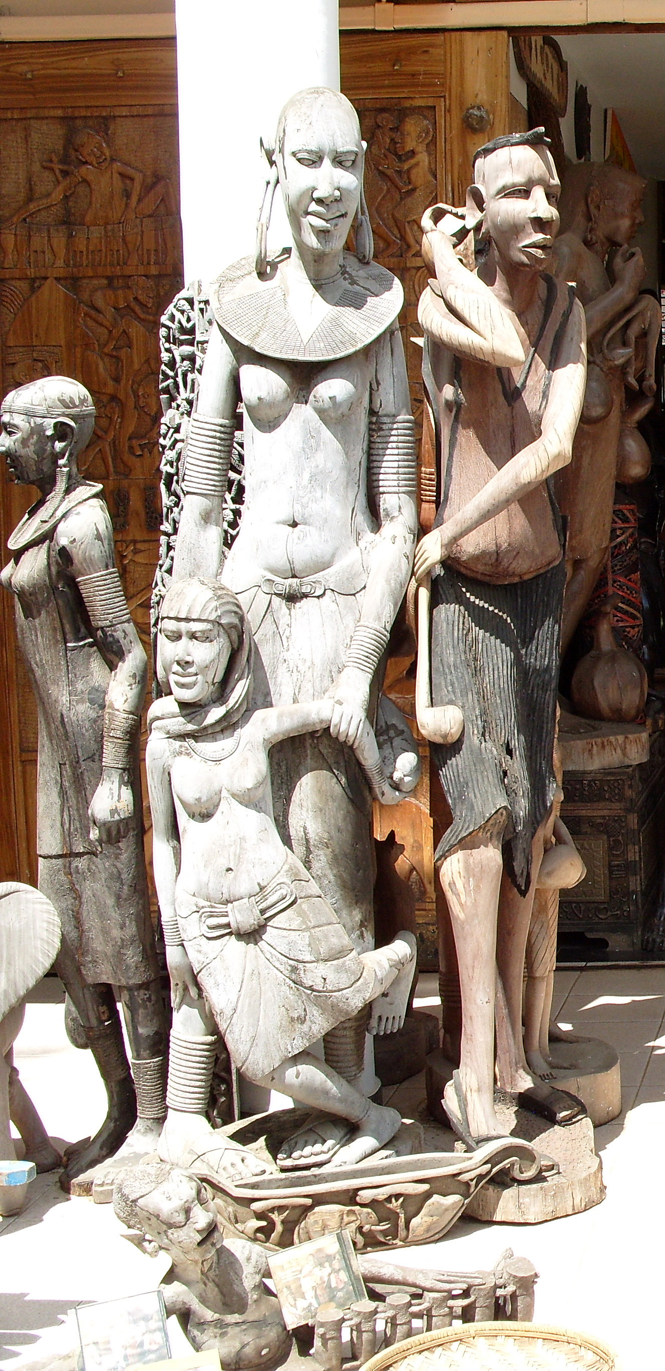 Wood carvings in the Heritage Center in Arusha, Tanzania